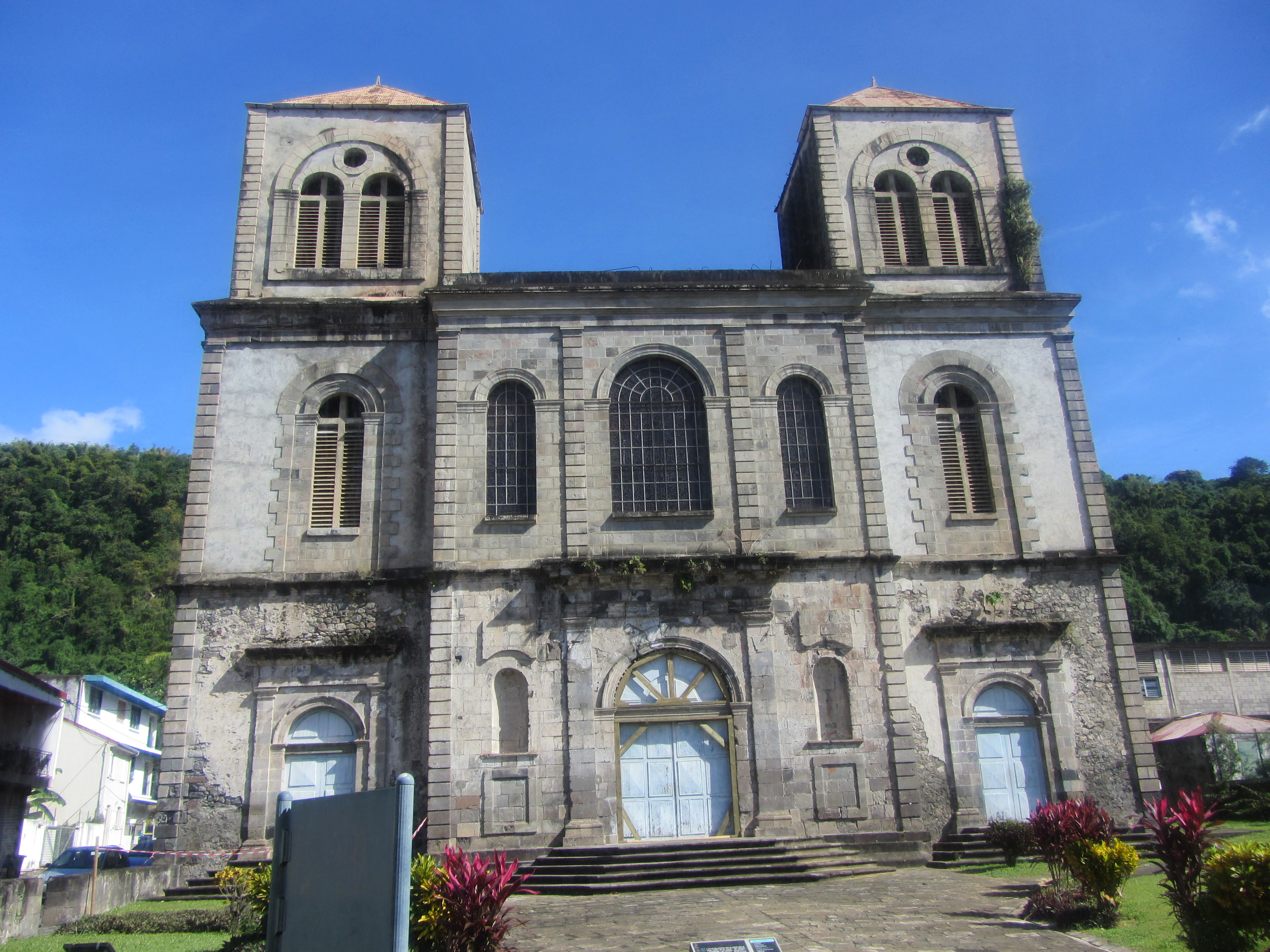 Cathédrale Notre-Dame-de-l'Assomption in Saint-Pierre, Martinique